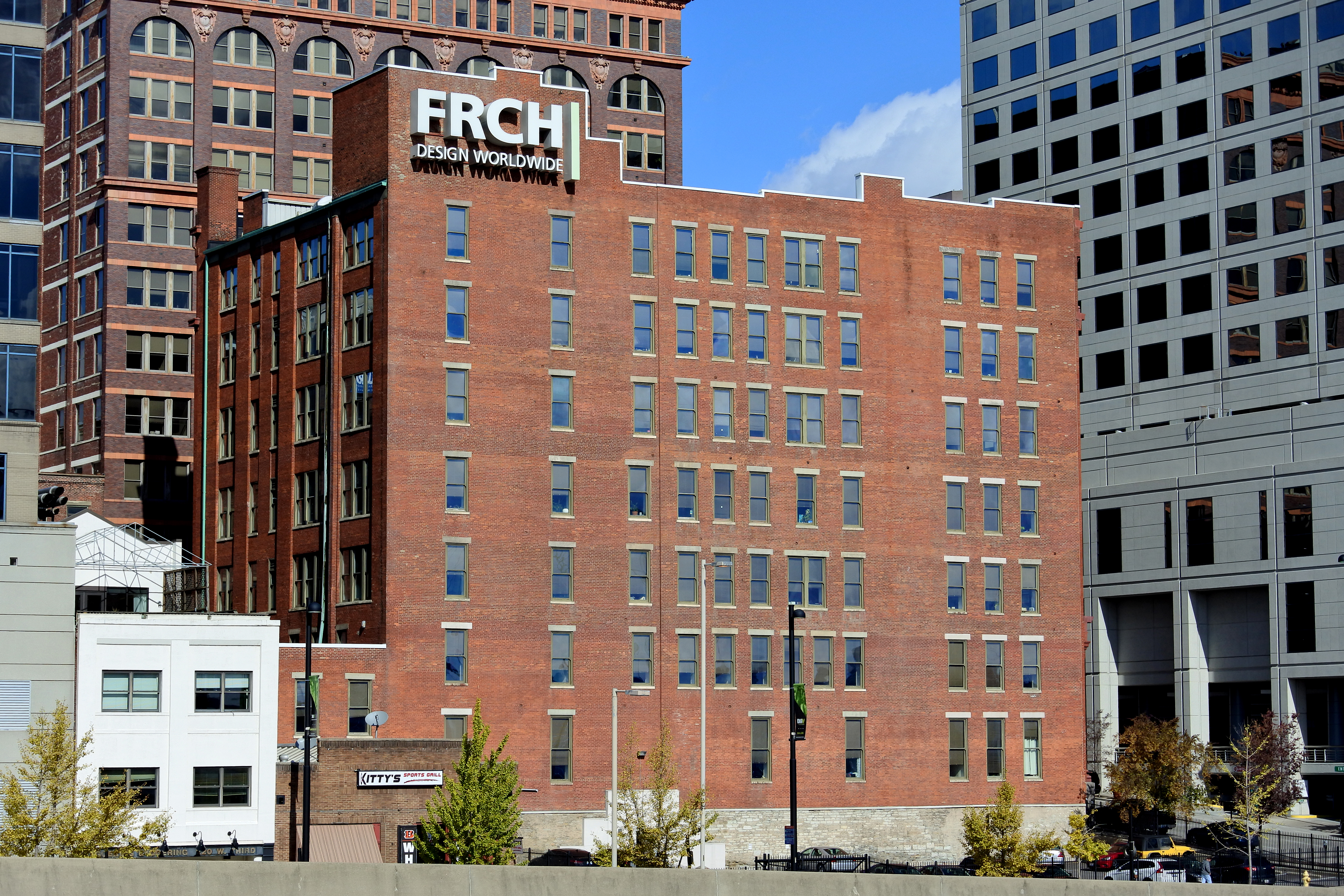 Corporate offices of American architecture firm FRCH Design Worldwide in Downtown Cincinnati, Ohio